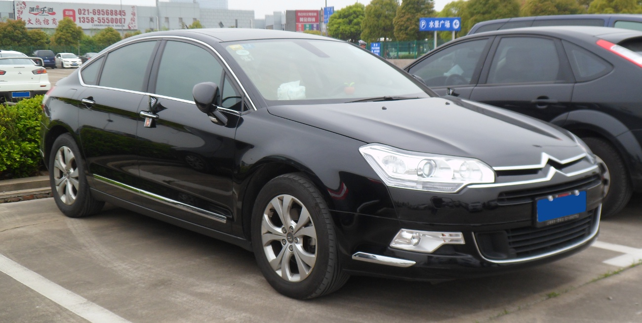 Citroën C5 II photographed in Anting, Shanghai municipality, China.